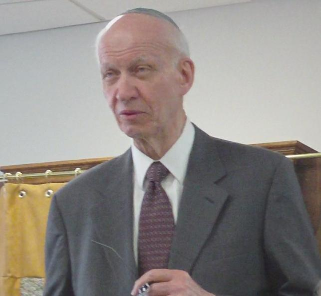 Rabbi Yitz Greenberg speaking at Yeshivat Chovevei Torah